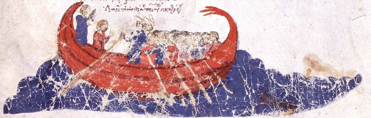 Exile of Patriarch Nikephoros